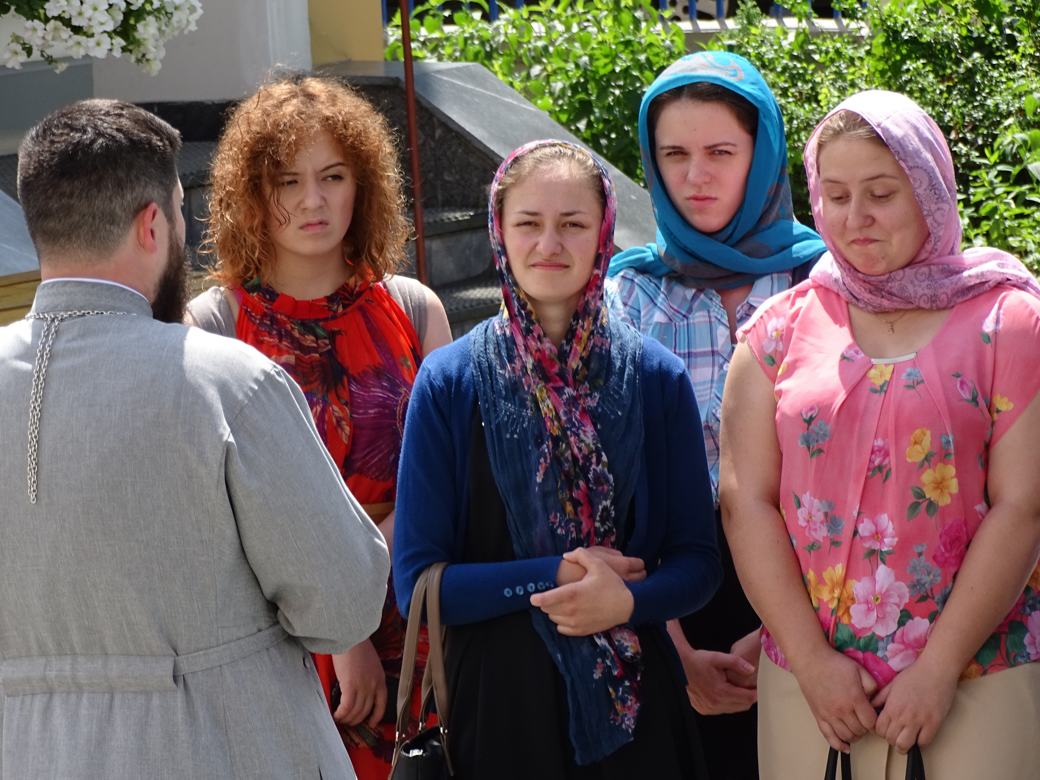 Priest with Women Devotees - Outside St. Nikolai's Church - Brest - Belarus